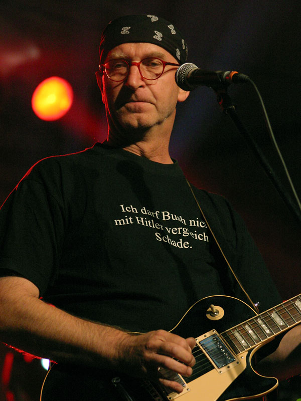 Heinz Prüfer, member of Klaus Renft Combo, live in Eppendorf/Saxony 2003.